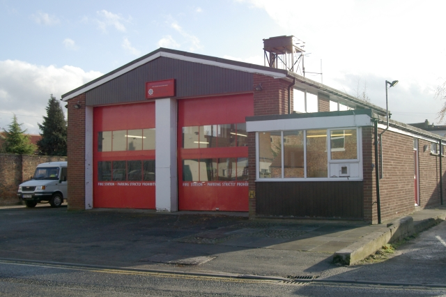 Stokesley fire station Stokesley fire station, North Road, Stokesley, North Yorkshire